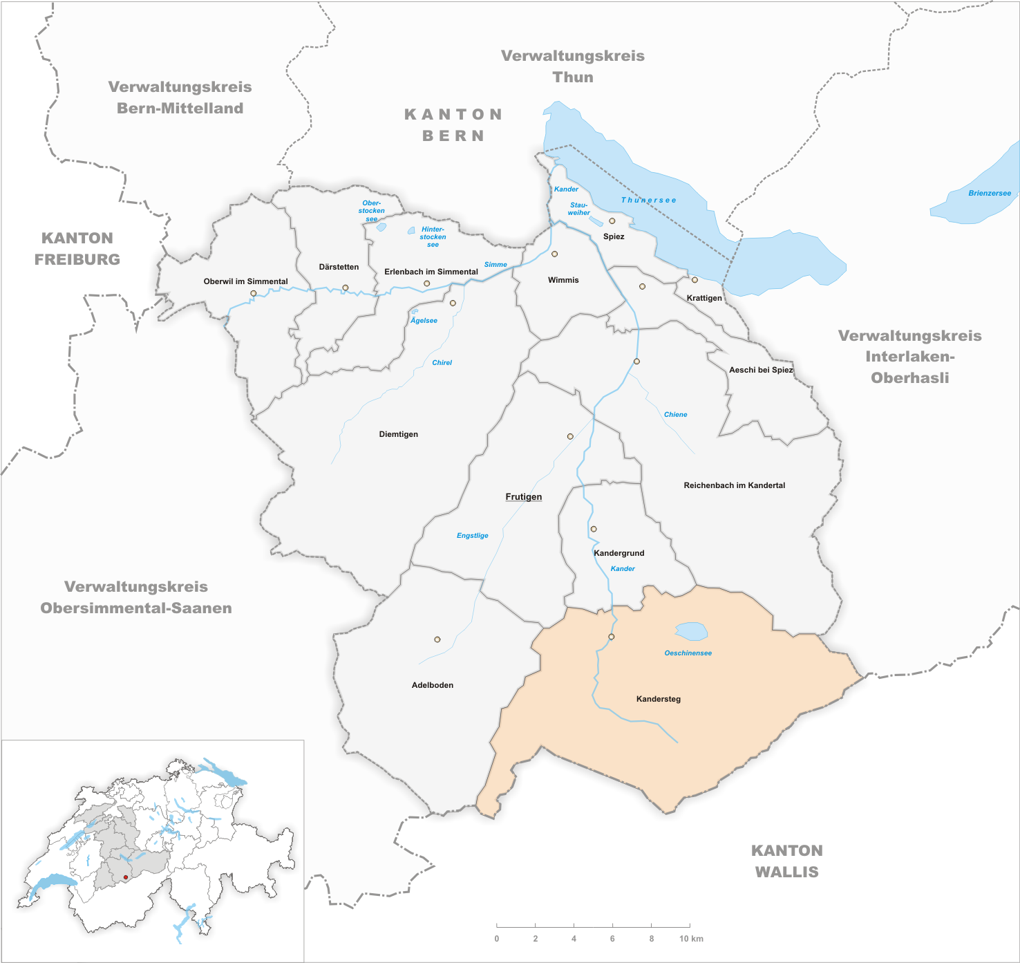 Municipality Kandersteg